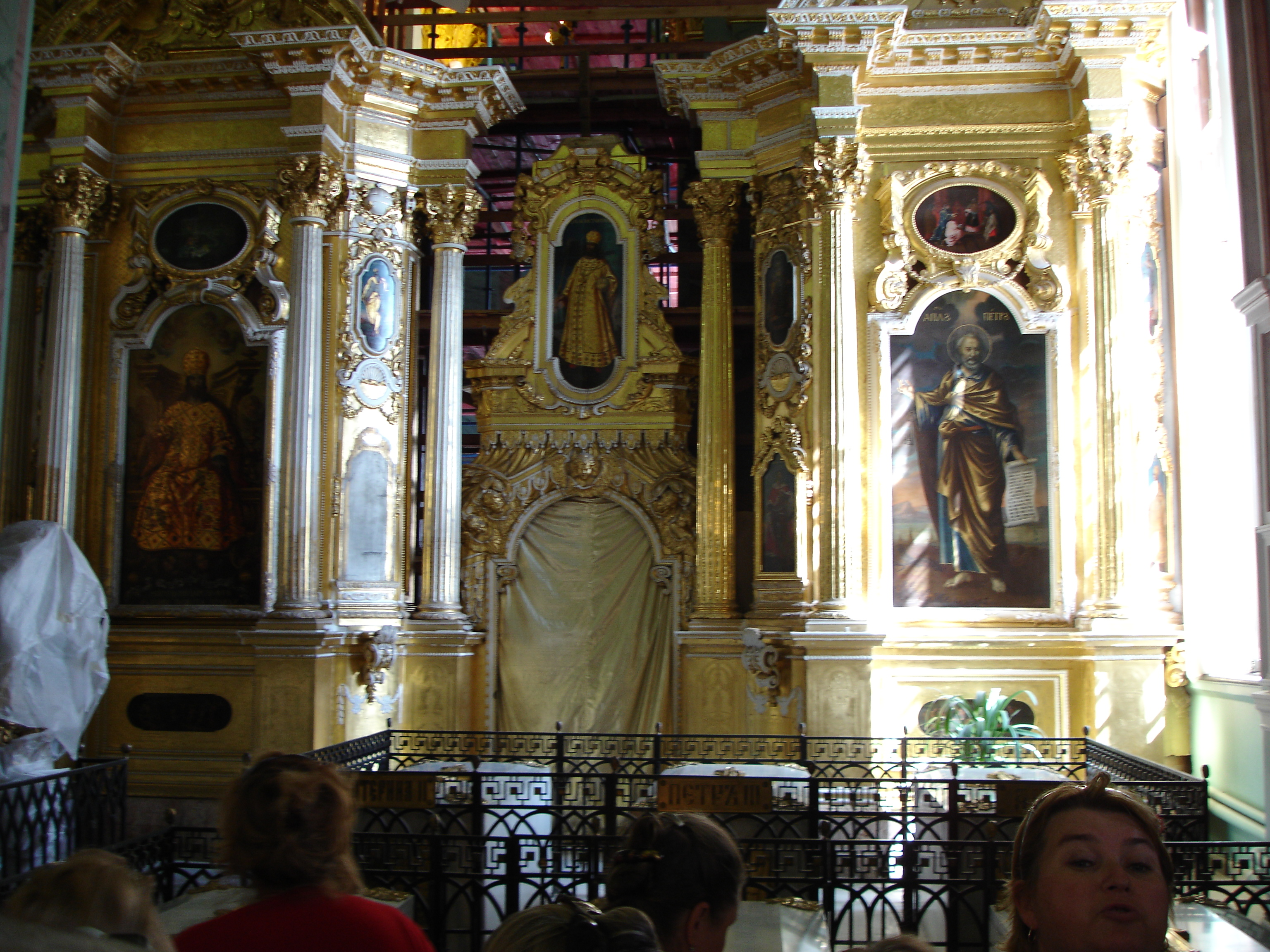 Peter and Paul Cathedral Interior, St. Petersburg, Russia.